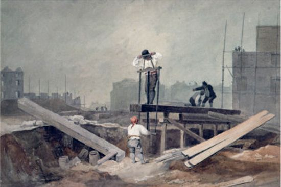 'The Sawpit'